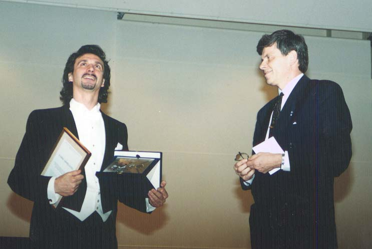 Italian tenor Fabio Armiliato has awarded with the Beniamino Gigli award yr 2000 from the chairman of the Finnish Beniamino Gigli Association Mr. Torsten Brander